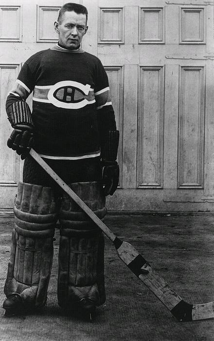 Georges Vézina, goaltender of the Montreal Canadiens of the NHA and NHL from 1910 to 1925. Photo circa 1922-24.